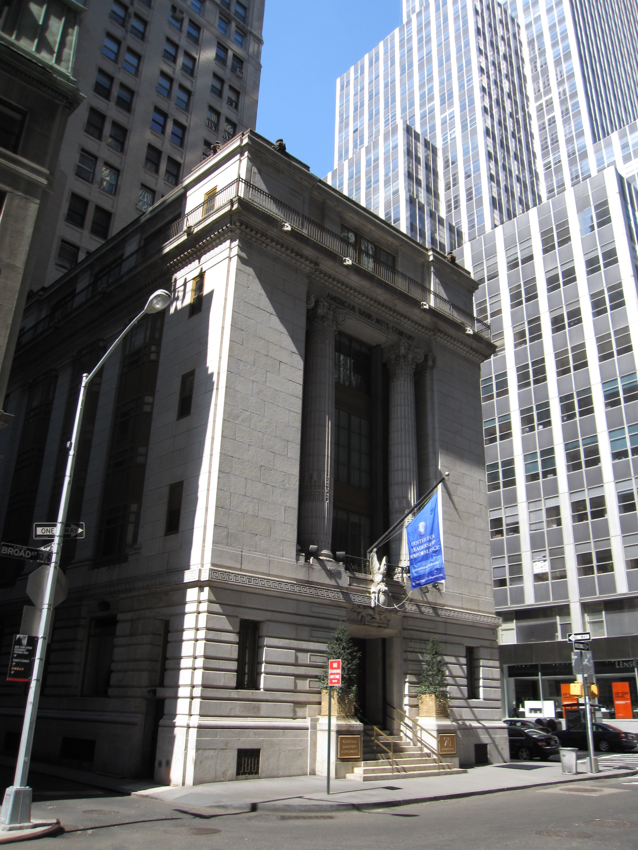 American Bank Note Company building